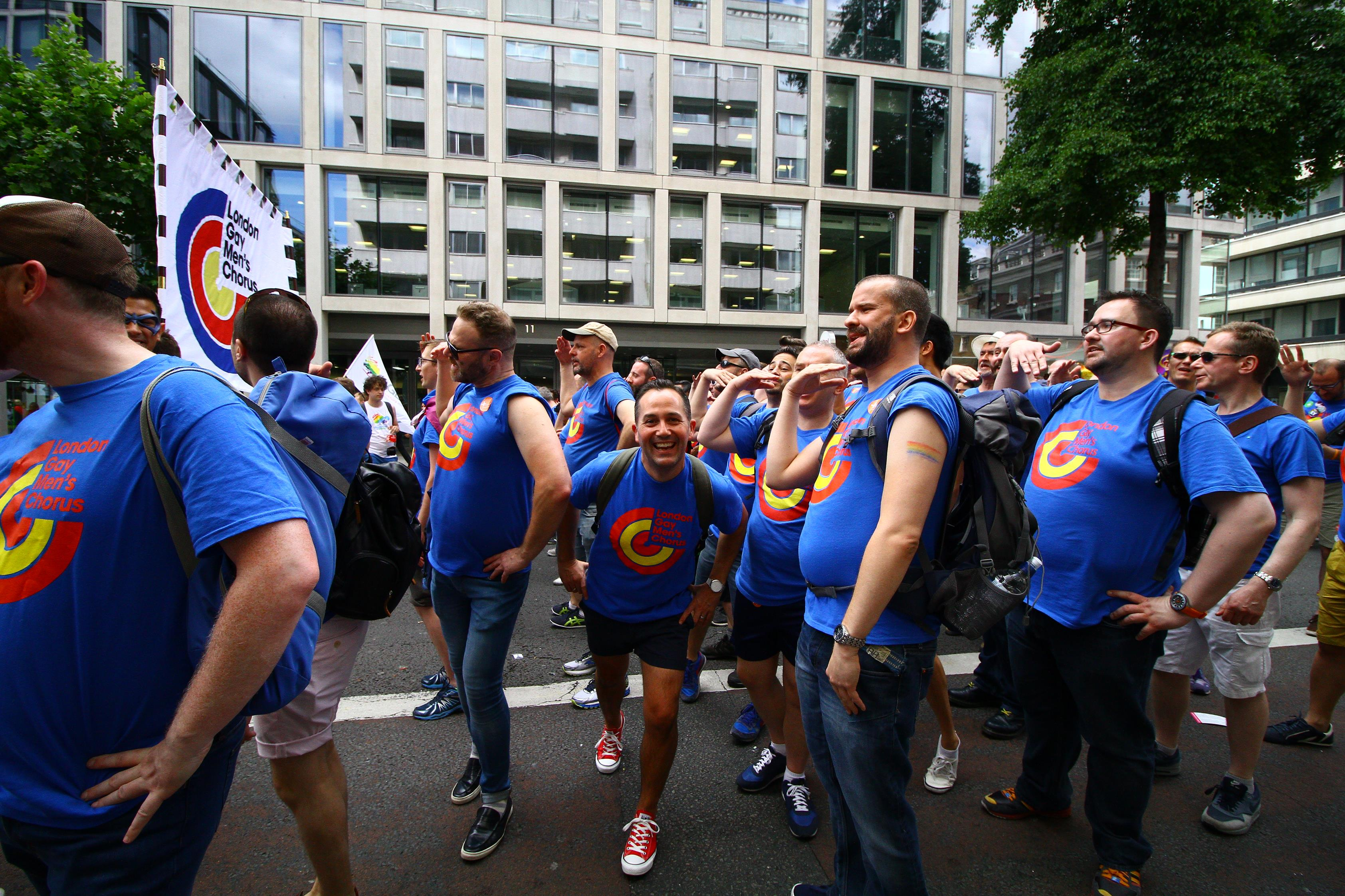 Pride in London 2015